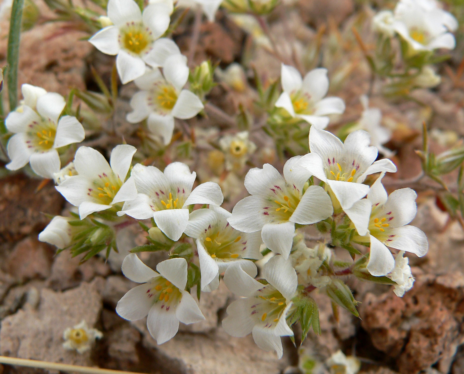 Photo of Linanthus demissus in the desert west of Las Vegas, Nevada (just off the end of Tropicana Avenue)